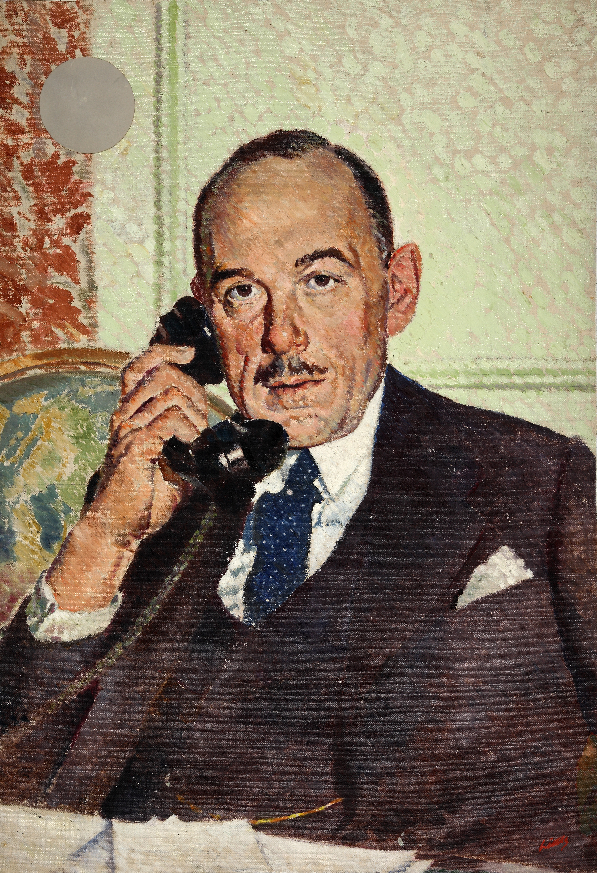 Rt Hon Oliver Lyttelton Depicted person: Oliver Lyttelton, 1st Viscount Chandos